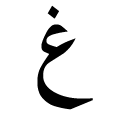 Letter ghain of the arabic abjad